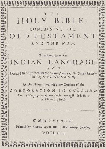 Title page of the 1663 first edition of John Eliot's translation of the Holy Bible.